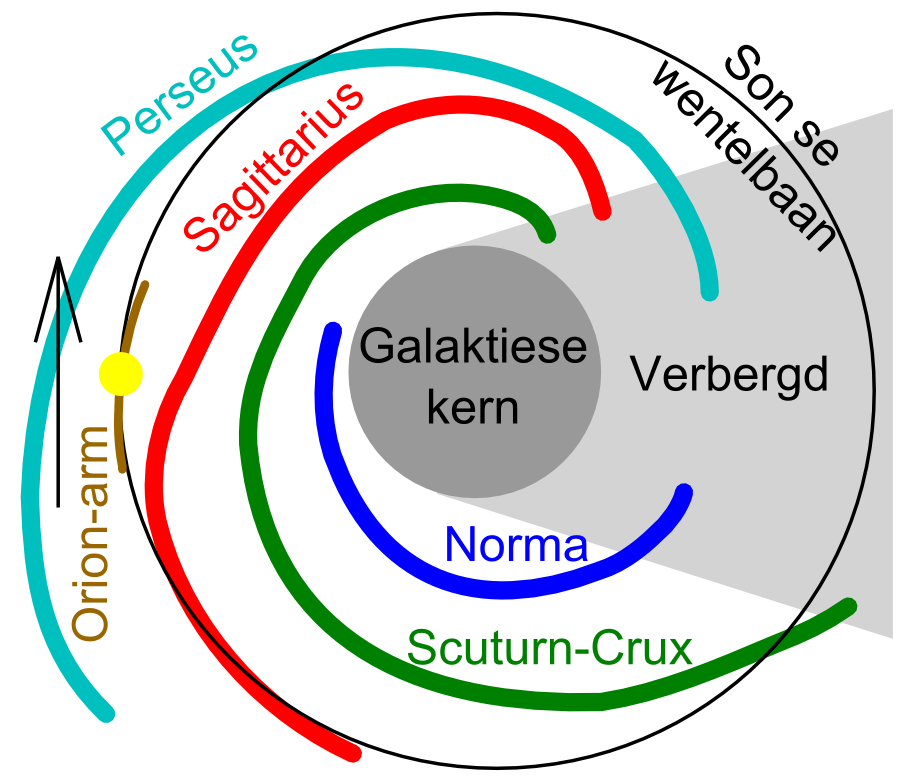 Observed spiral structure of the Milky Way galaxy following Error: journal= not stated. The arrow points the direction of the solar system's motion relative to the spiral arms. The plotted orbit of the sun does not account for perturbations caused by interactions with the spiral arms.